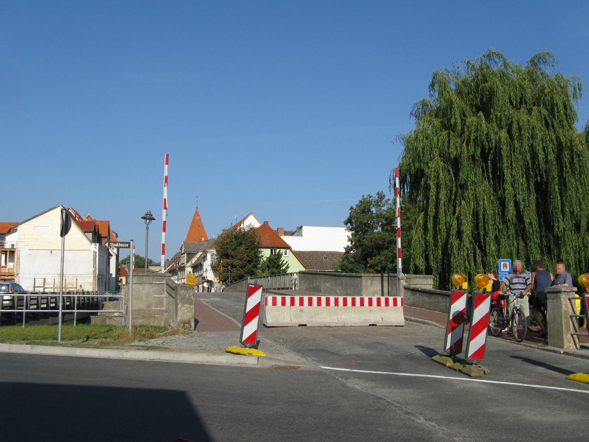 Lift bridge without lift in Schwaan, disctrict Bad Doberan, Mecklenburg-Vorpommern, Germany